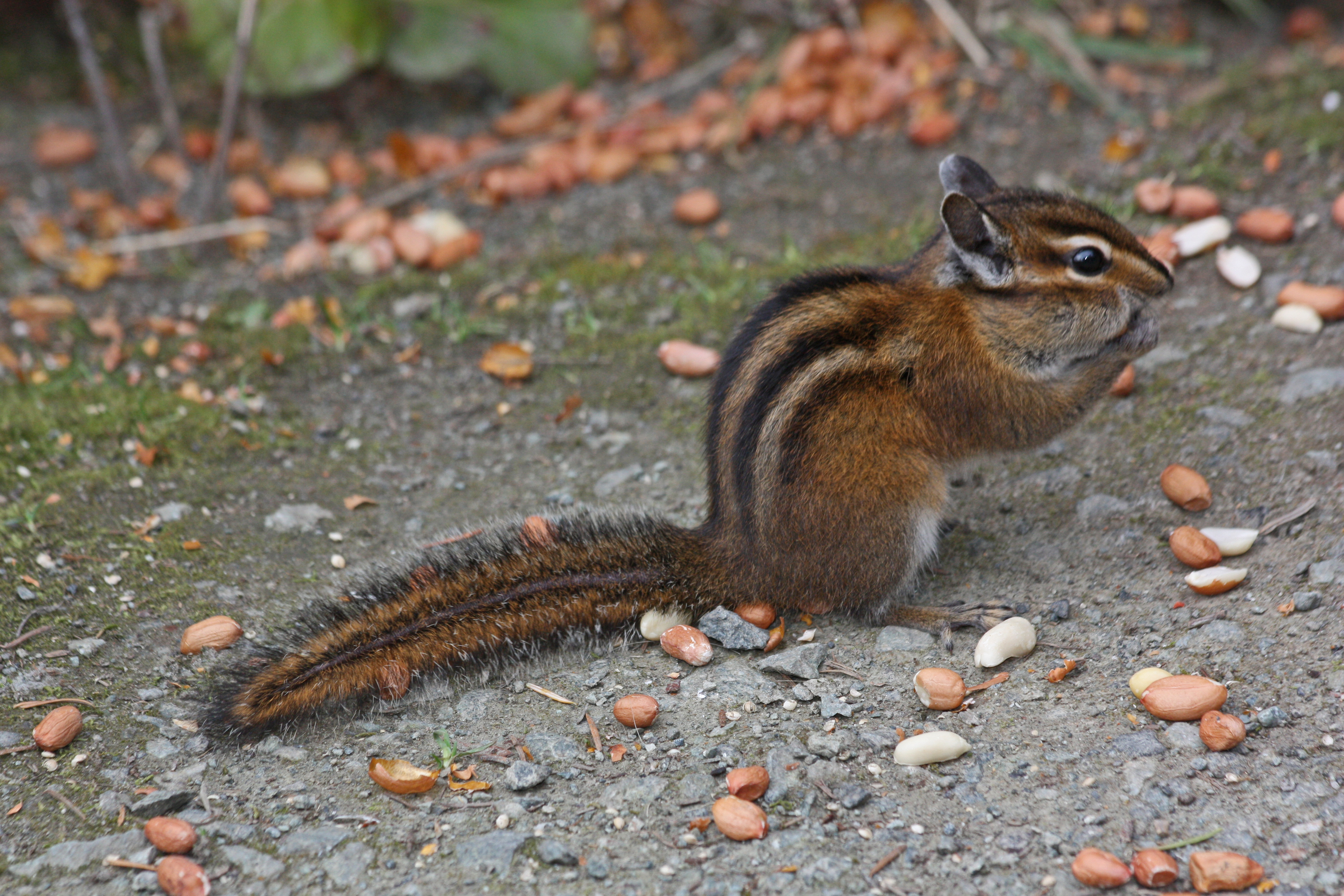 Townsend's Chipmunk Viewpoint location: Loop Road, Washington Park (Anacortes) Viewpoint elevation: 12 meter (38 ft) Location source: Garmin GPSmap 60CSx Location Datum: WGS84